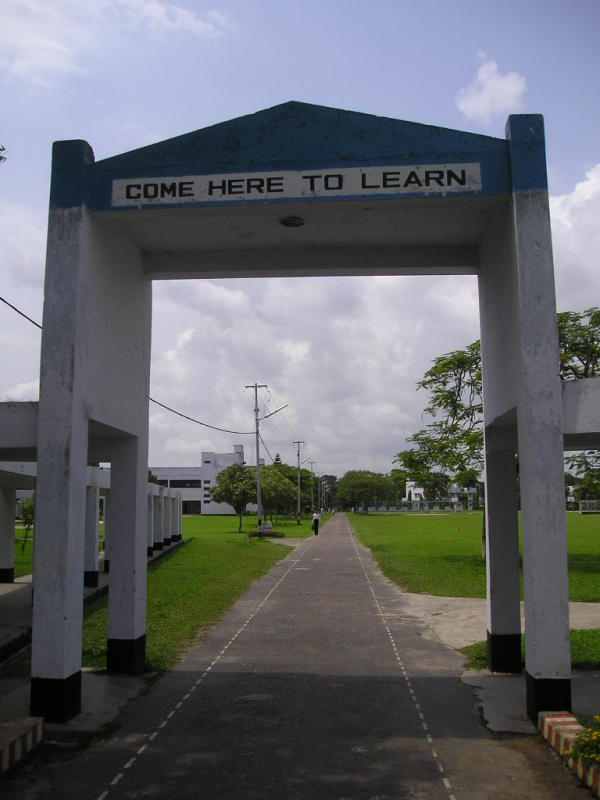 MCC is in Bangladesh